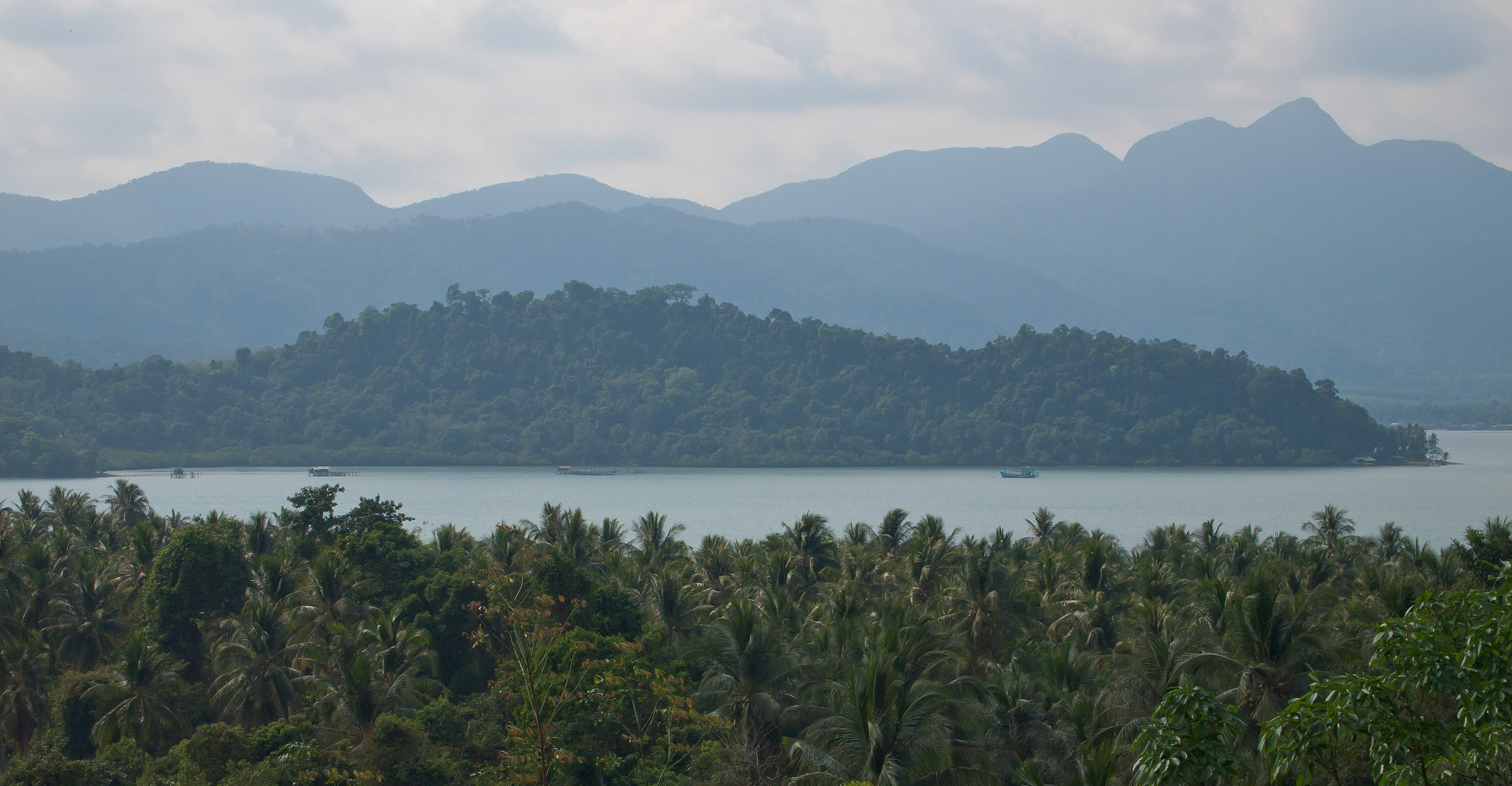 Eastern (most wild) part of Koh Chang island in Thailand